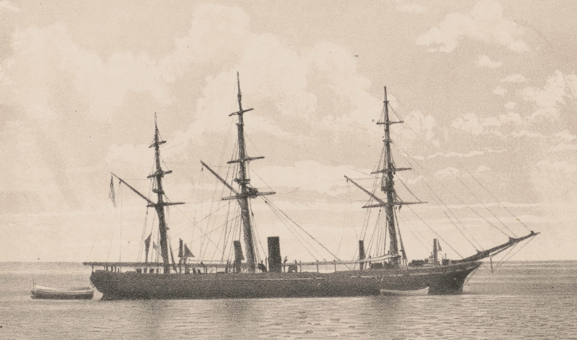 Title: Columbia harbor, eastern terminus of canal: Mouth of Atrato, U.S.S. Nipsic Physical description: 1 print. Notes: Associated name on shelflist card: Sinclair, Thomas; This record contains unverified data from PGA shelflist card.